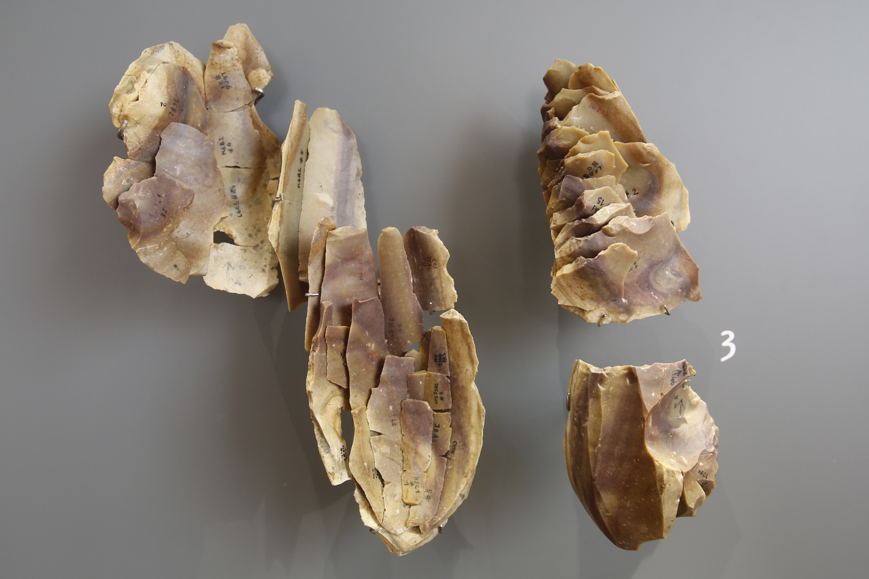 Reconstituted Aurignacian lithic core and flakes exposed in the Musée national de Préhistoire, Les Eyzies-de-Tayac-Sireuil.